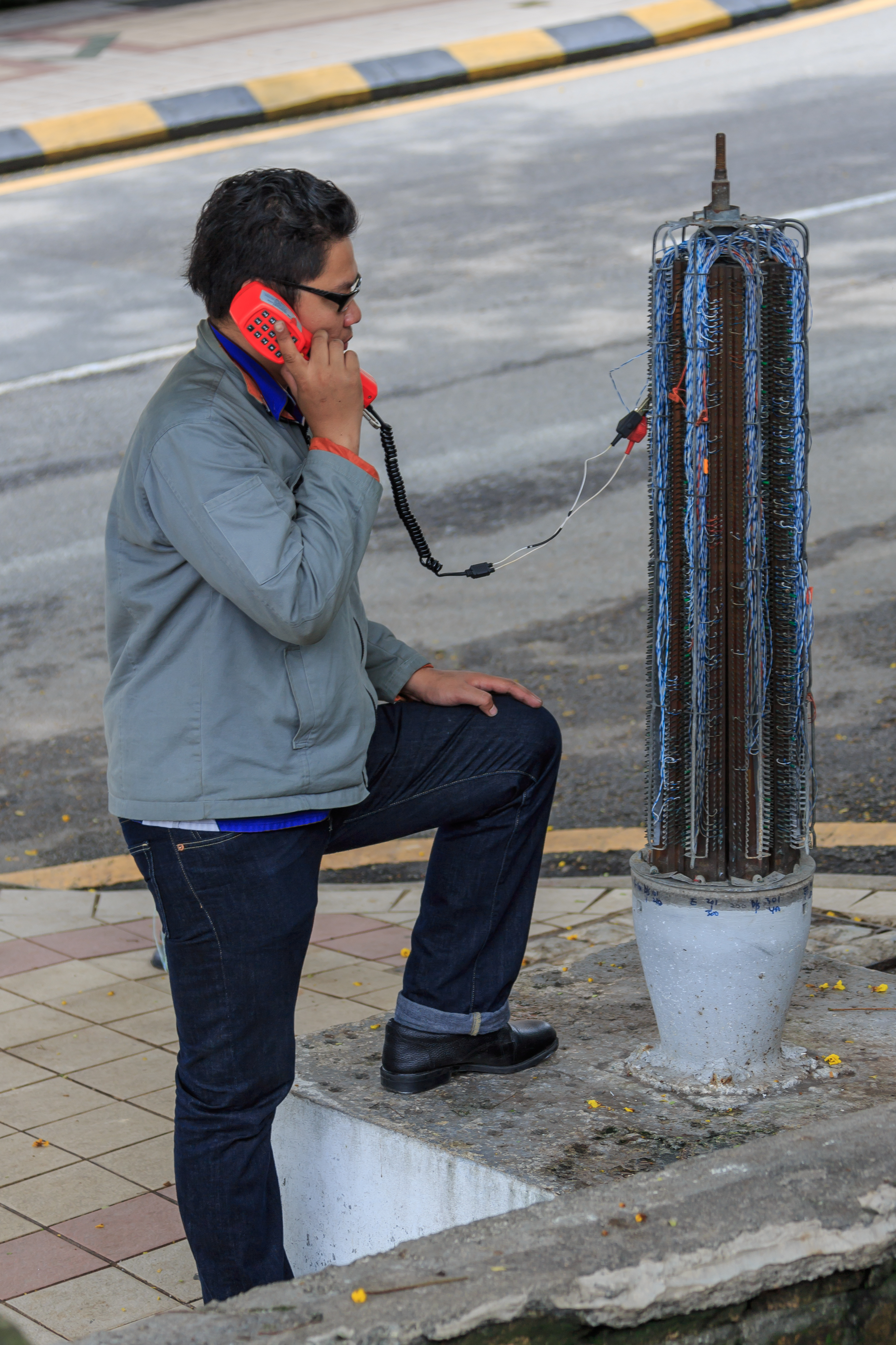 Kuala Lumpur, Malaysia: Telekom Malaysia technician wiretapping a serving area interface near BP House (Rumah BP) in Kuala Lumpur